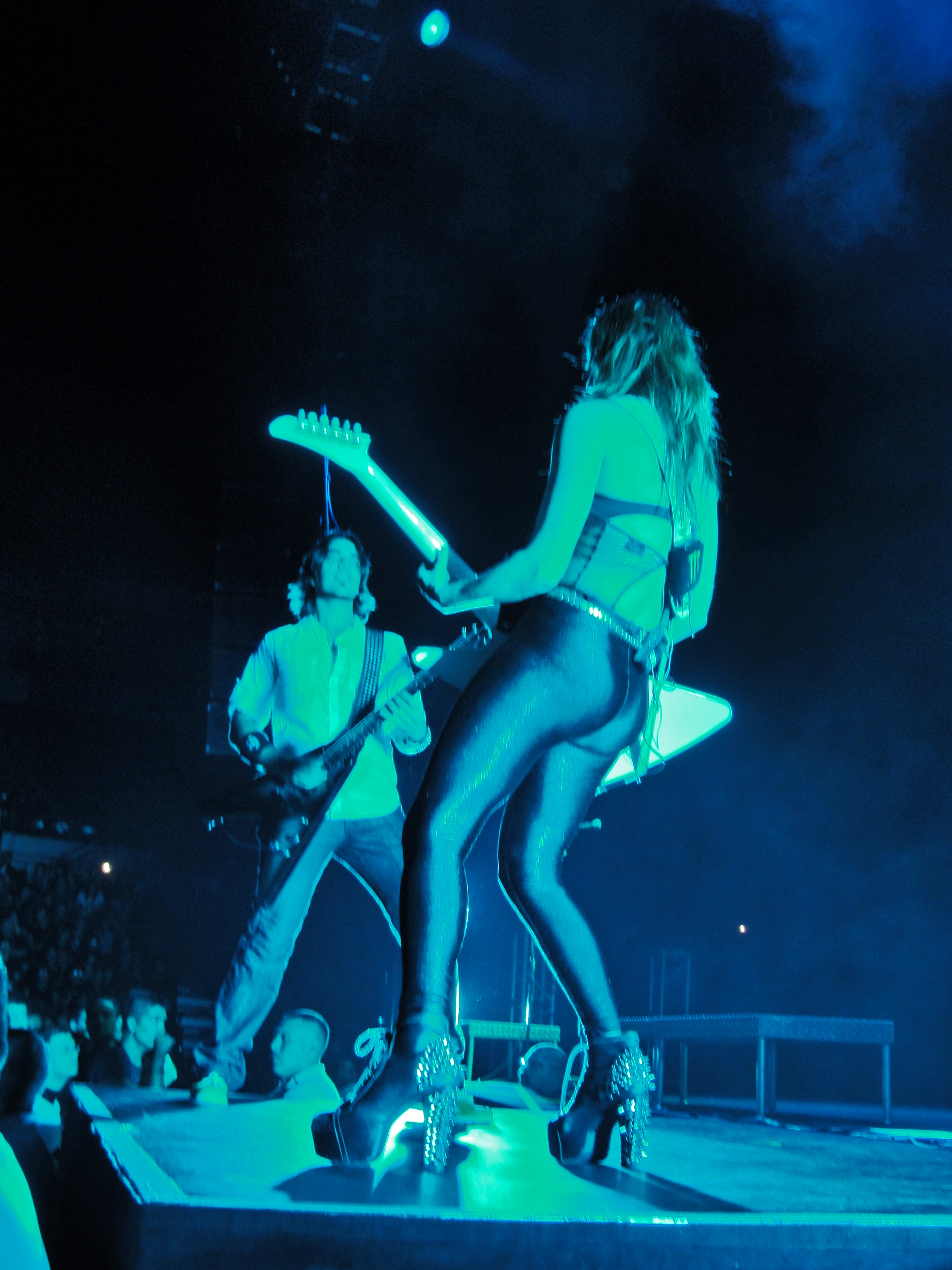 Halestorm performing live at the Laredo Energy Arena in Laredo, Texas August 14, 2012